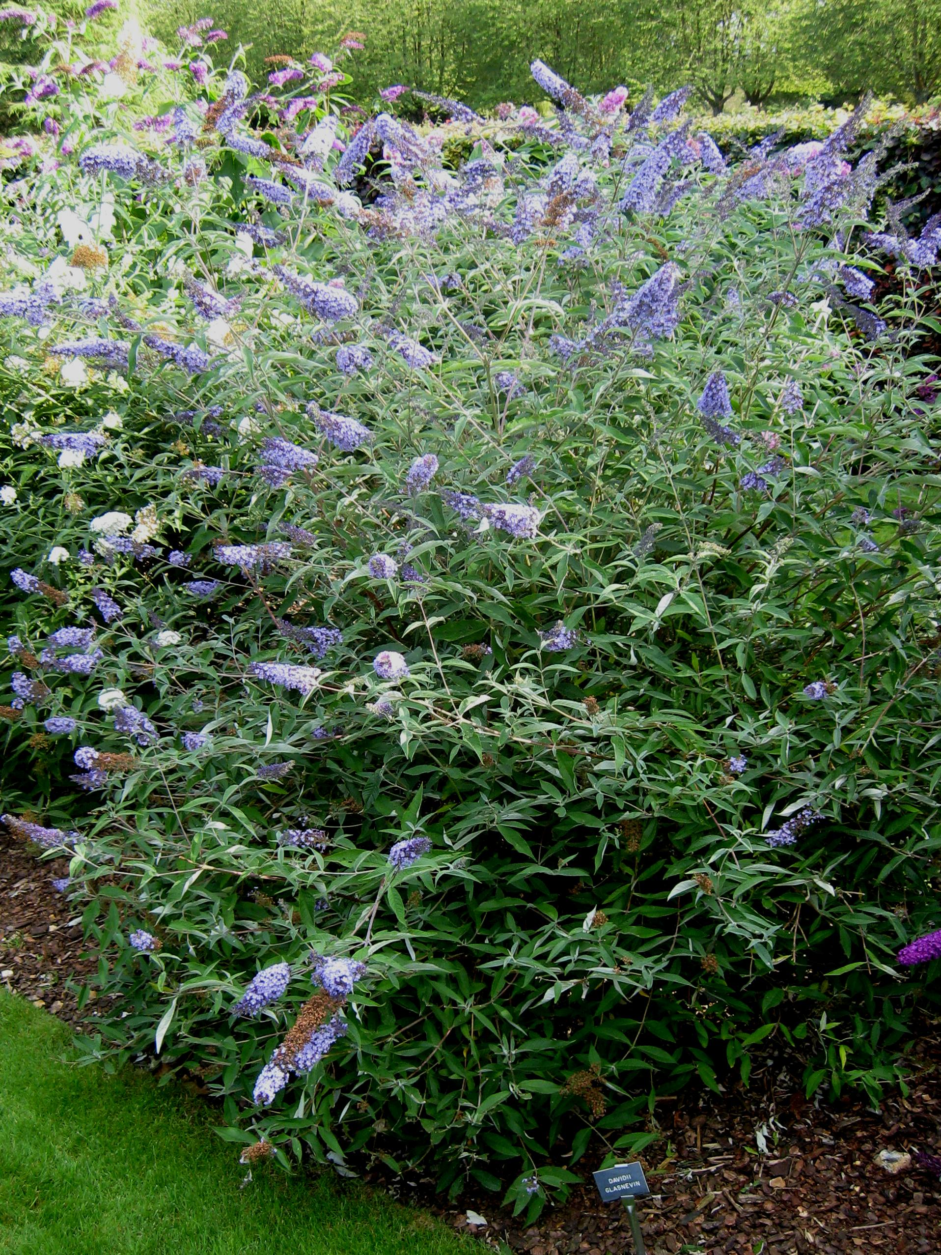 Photo of Buddleja cultivar taken at Longstock Park Nursery, UK, NCCPG national collection holder